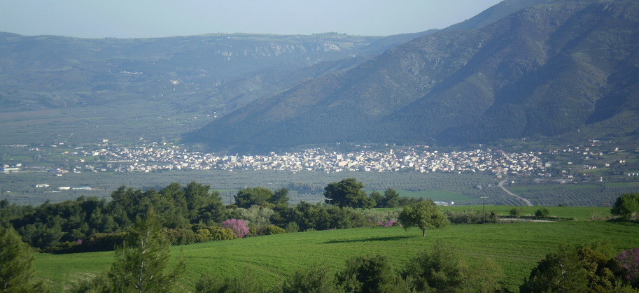 The town of Atalanti Fthiotis in Central Greece.